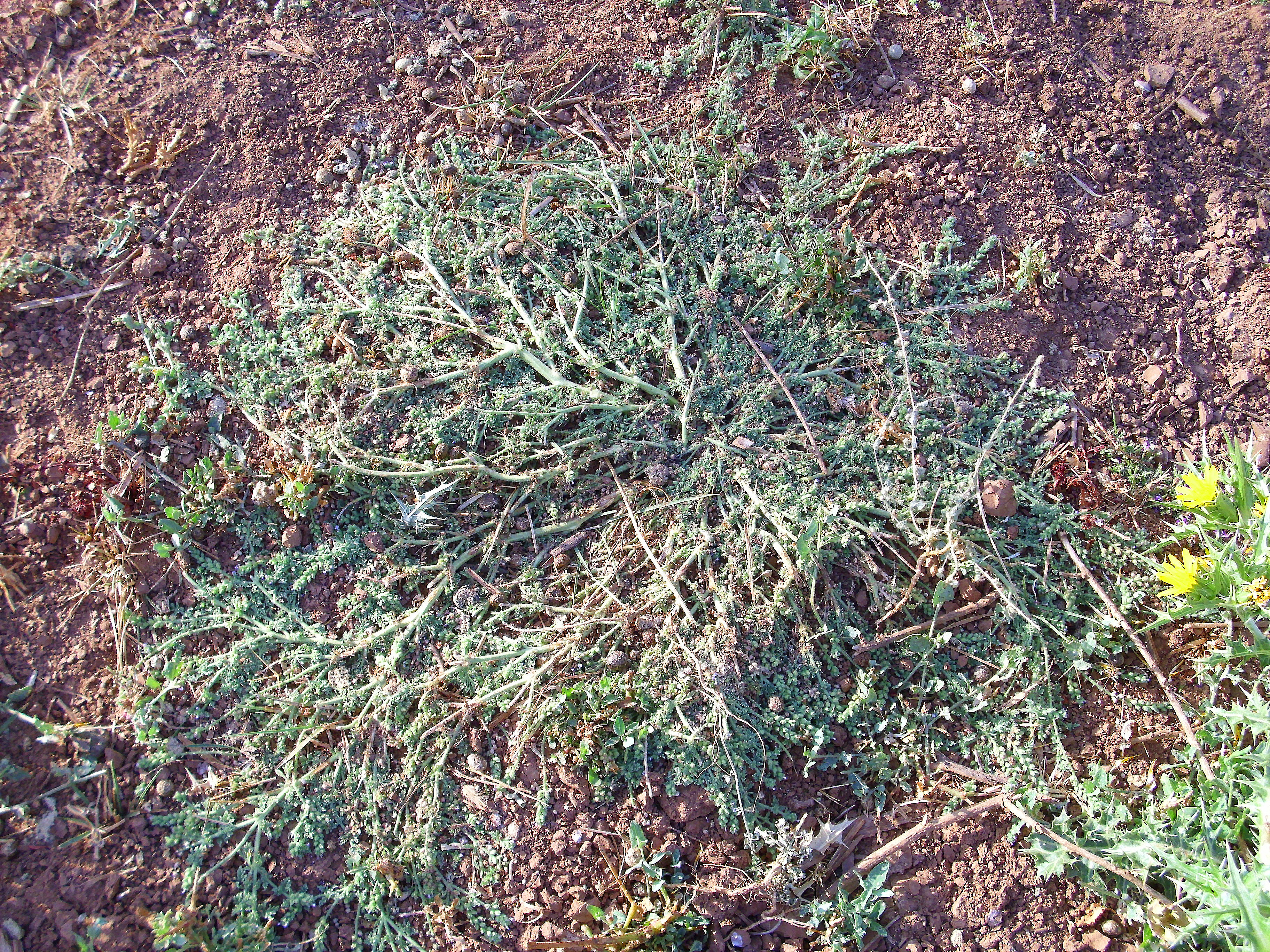 Verbena supina habit, Jabalón river, Campo de Calatrava, Spain